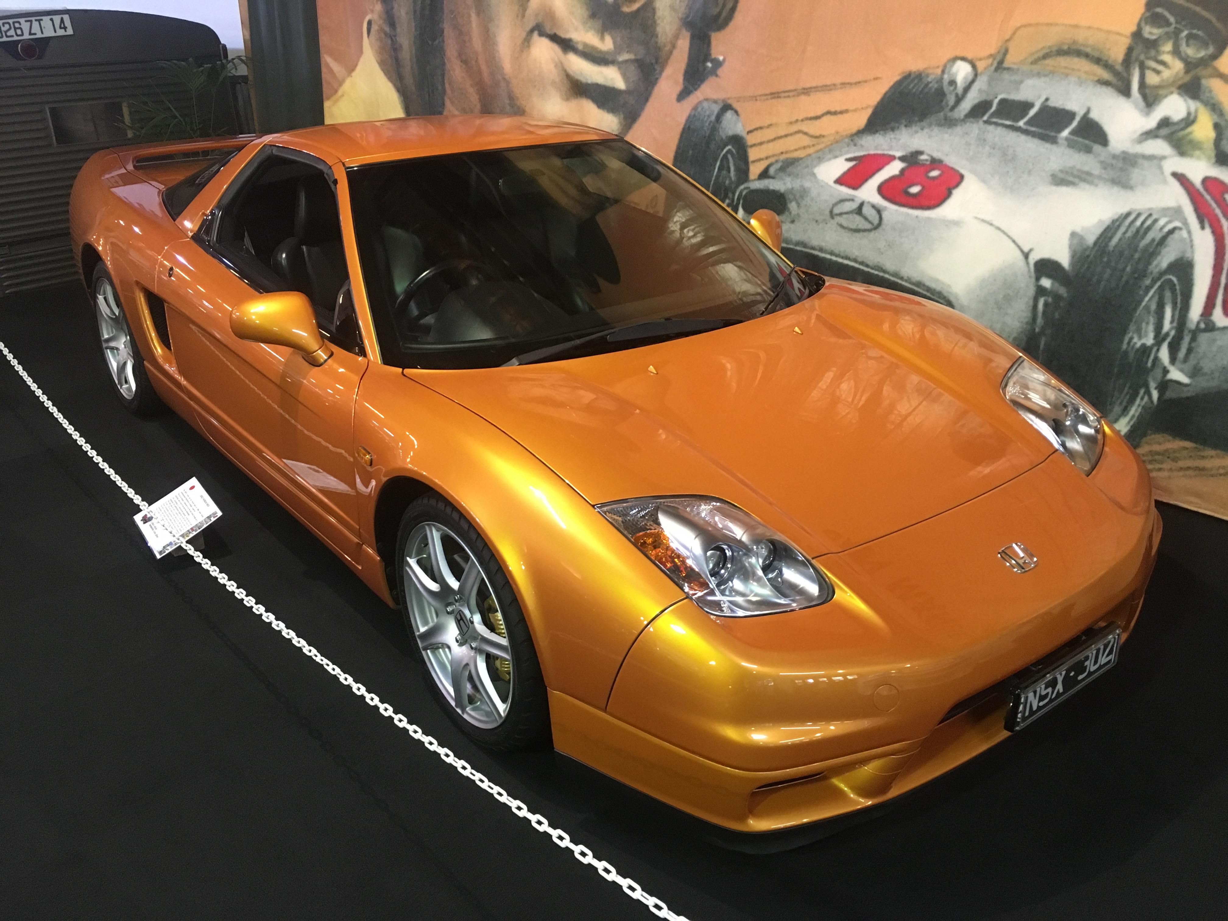 A 2002 Honda NSX on display at the National Automobile Museum of Tasmania